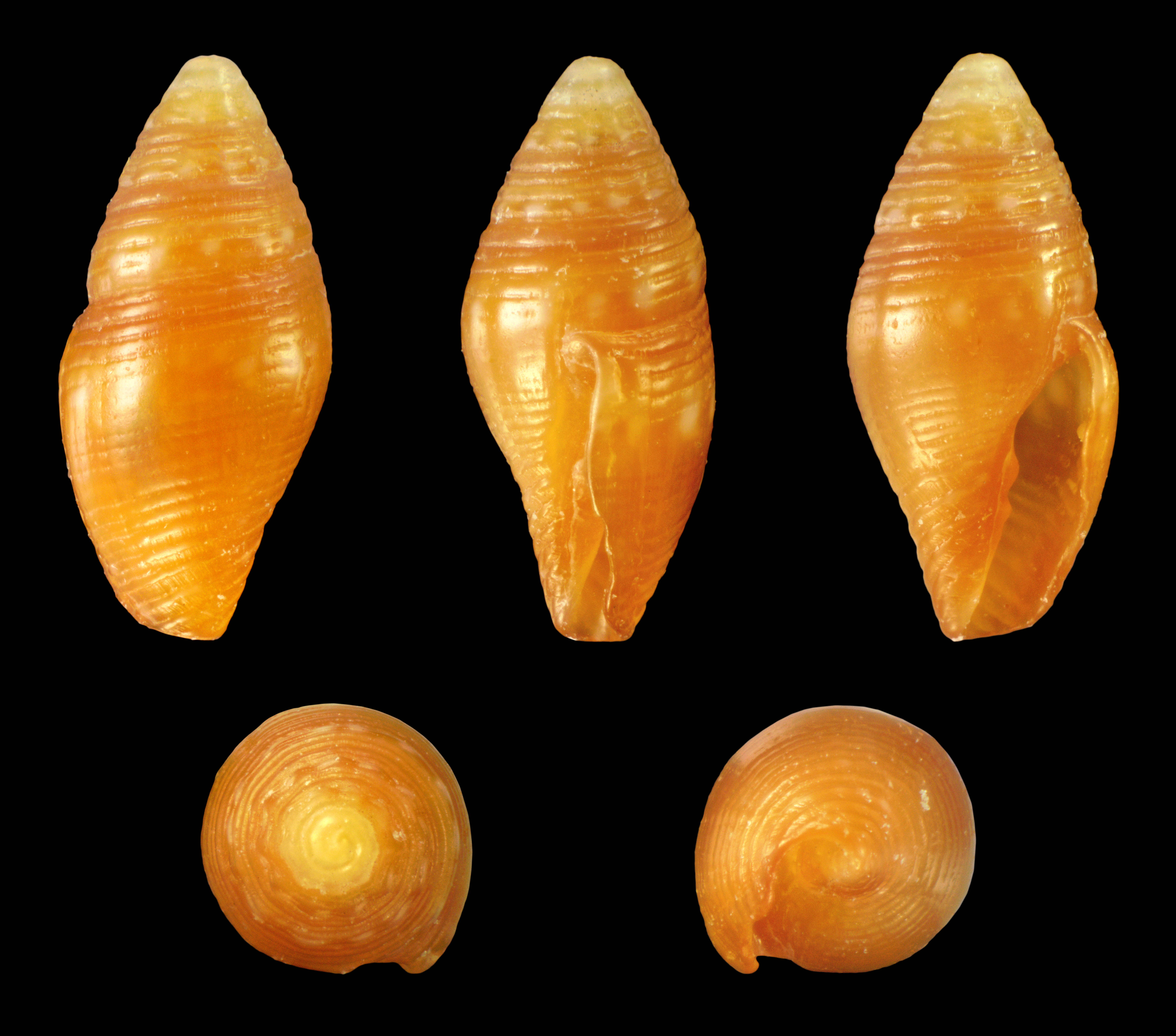 Mitromorpha canariensis Mifsud, 2001; Length 0.49 cm; Originating from Playa del Duque, Costa Adeje, Tenerife, Spain. Shell of own collection, therefore not geocoded.